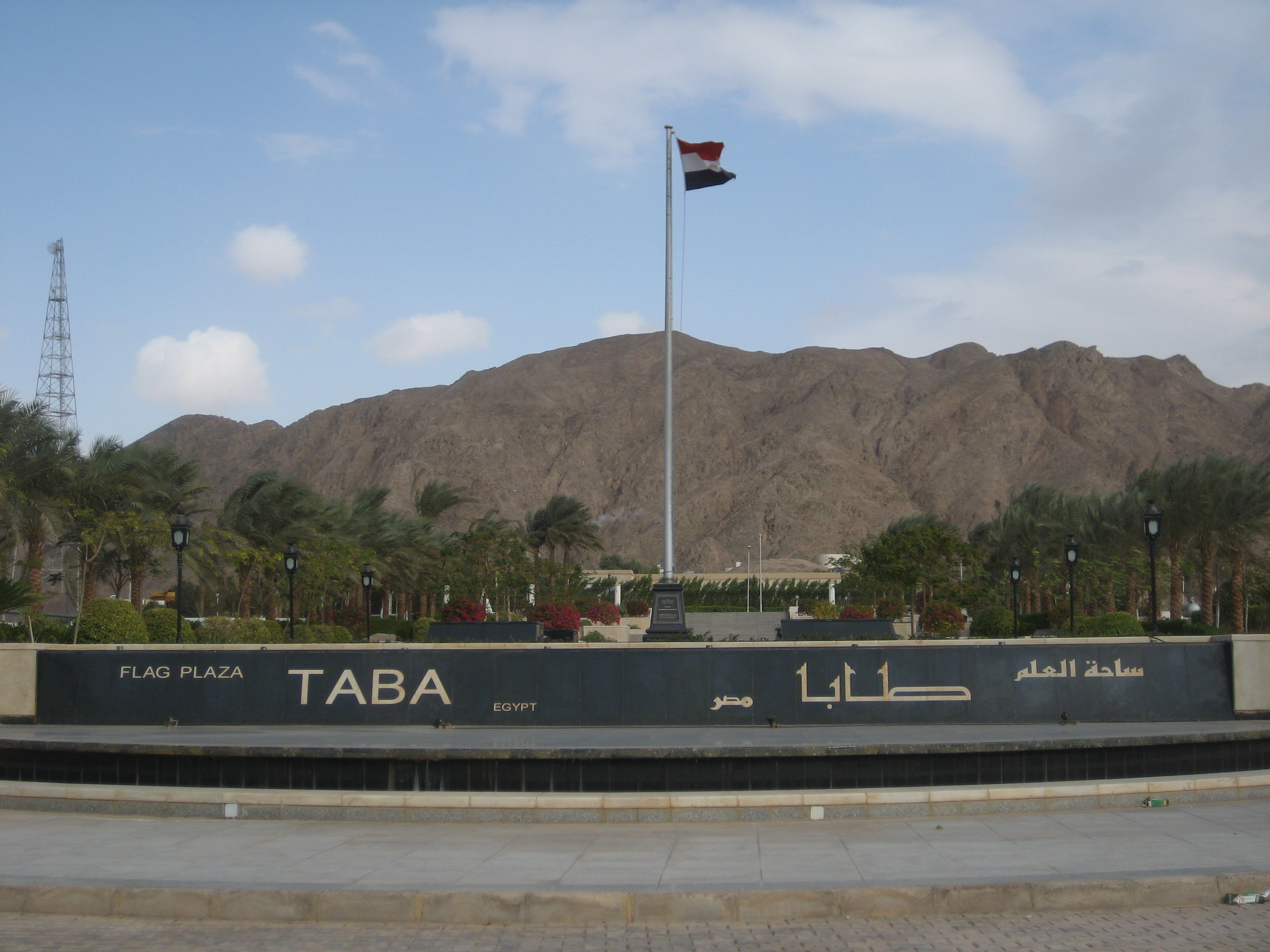 Flag Plaza in Taba, Egypt, where Hosni Mubarak raised the Egyptian flag after the return of Taba to Egyptian sovereignty.